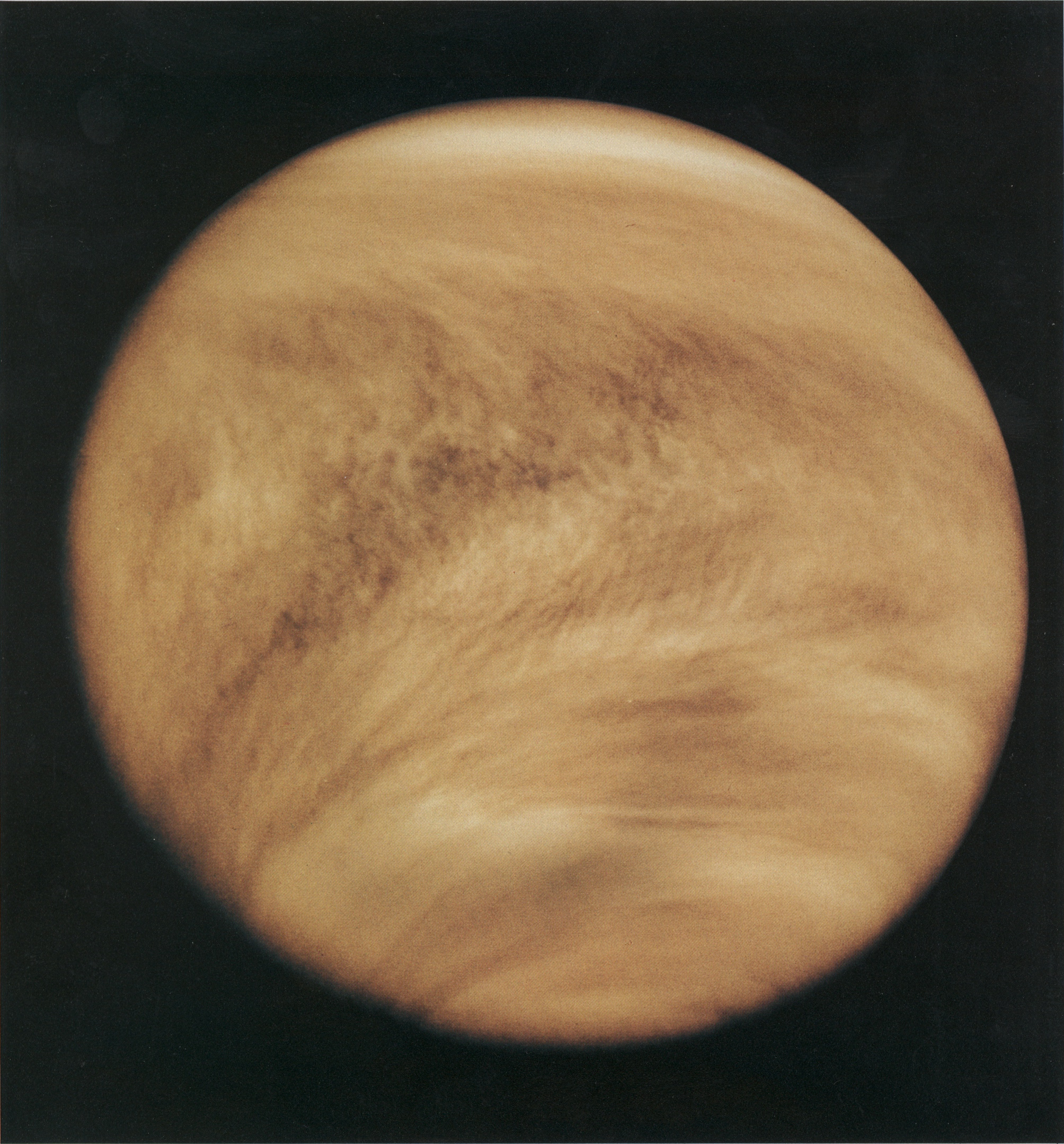 Ultraviolet image of Venus' clouds as seen by the Pioneer Venus Orbiter (February 26, 1979). The immense C- or Y-shaped features which are visible only in these wavelengths are individually short lived, but reform often enough to be considered a permanent feature of Venus' clouds. The mechanism by which Venus' clouds absorb ultraviolet is not well understood.